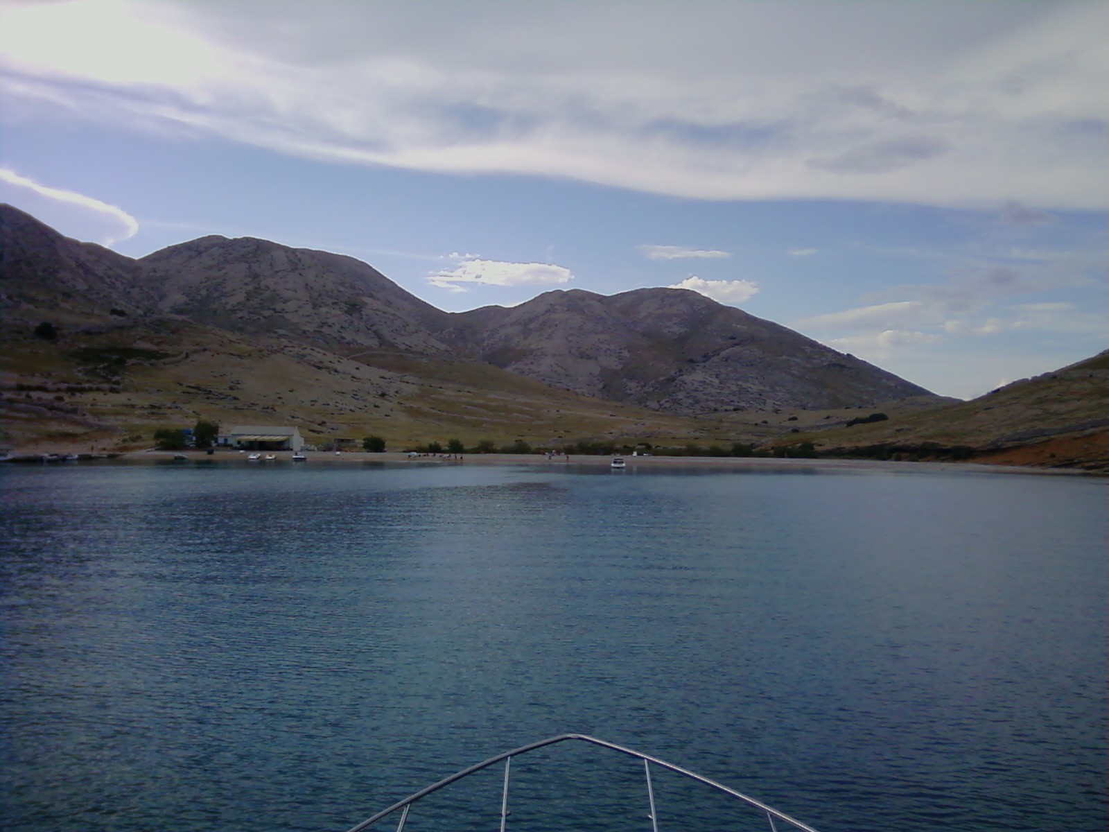 Beach in Vela Luka bay on island Krk in Croatia